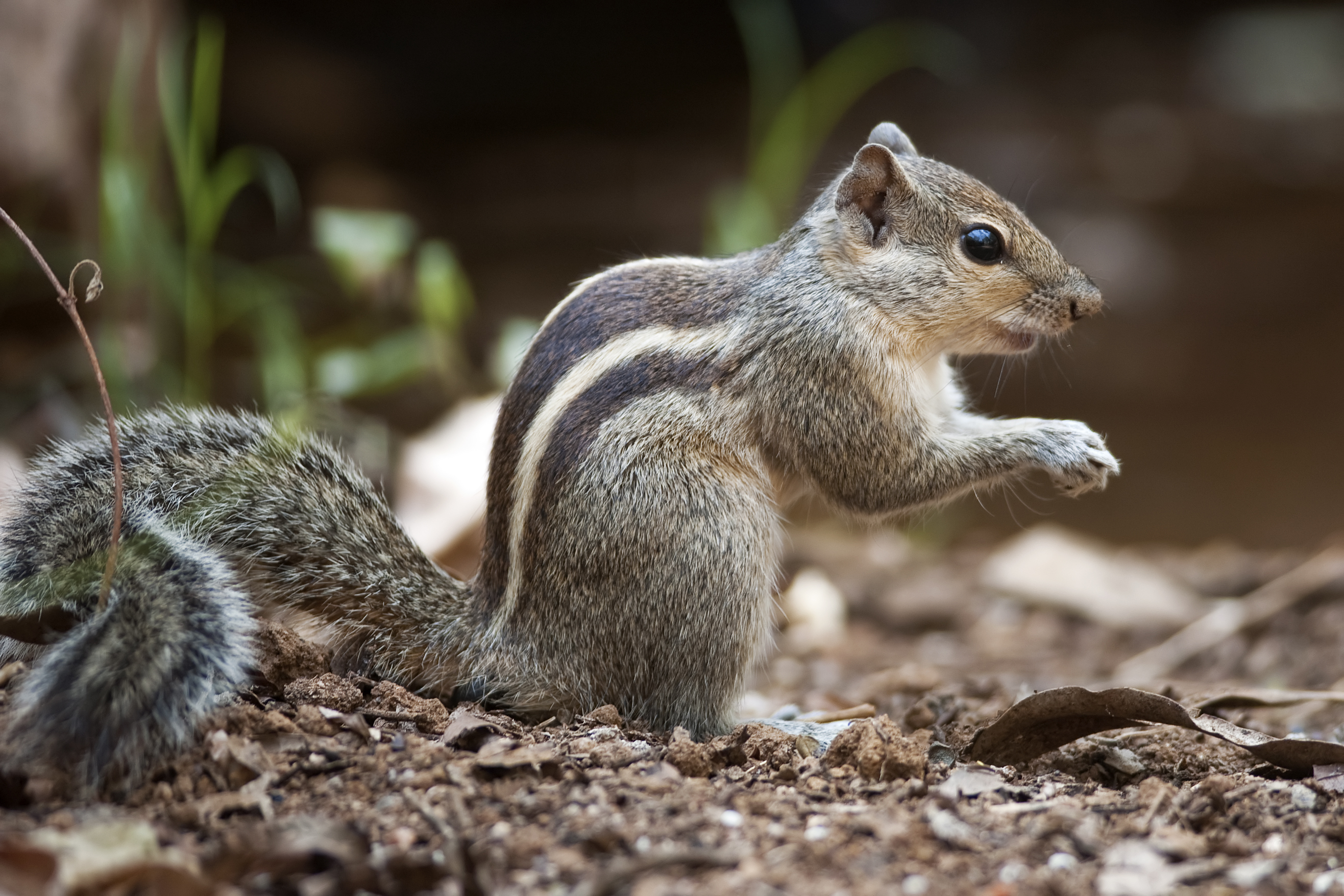 Indian palm squirrel in Bengaluru